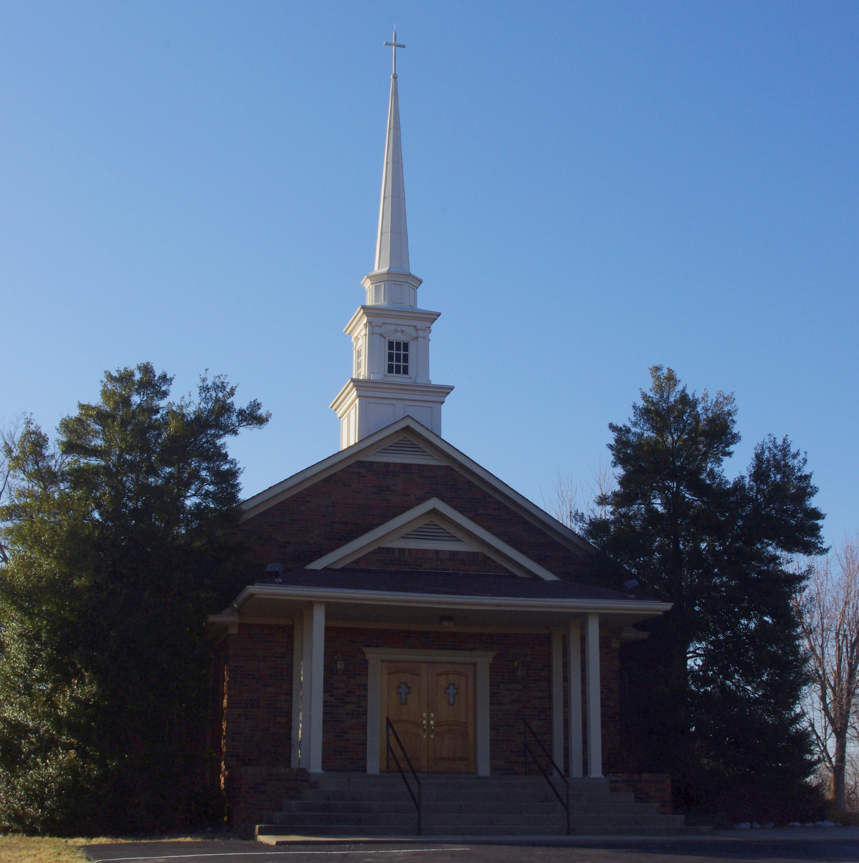 Our Lady of the Hills (Finley, Kentucky) - exterior